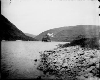 Unidentified steamer proceeding upriver (apparently the Snake River) headed towards a place identified as Bishop, which would have been in either the state of Washington or the state of Idaho.